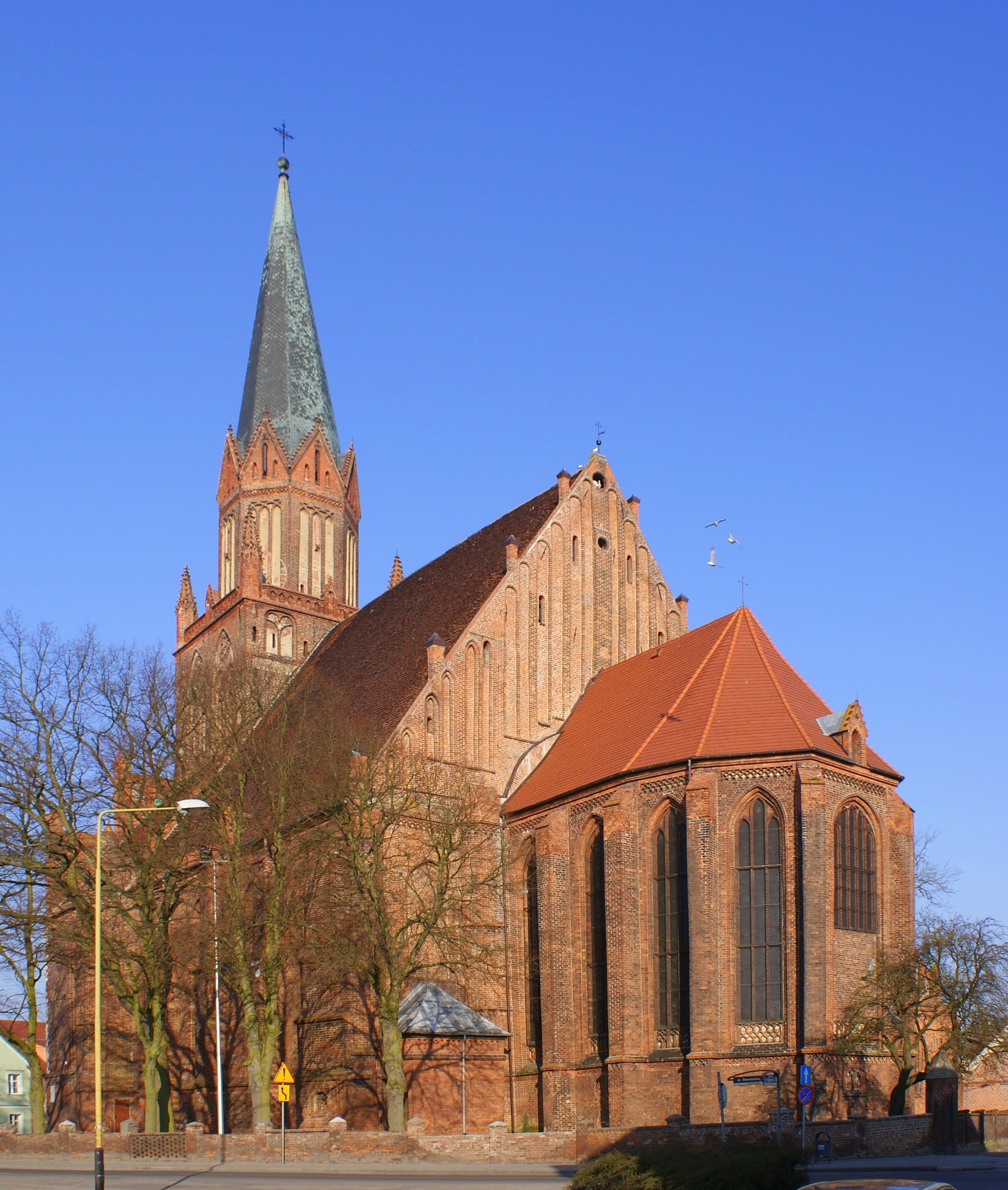 Saint Mary's Maternity Roman Catholic Church in Trzebiatów